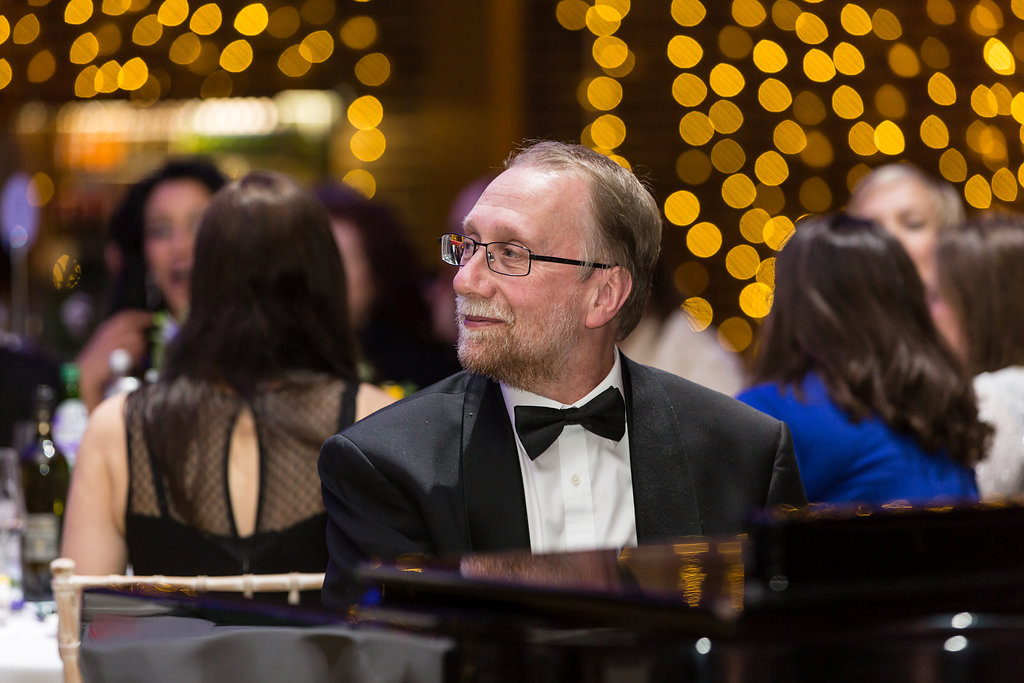 Photo of Andy Quin in 2018.